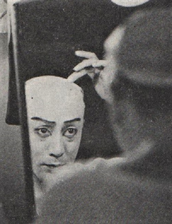 Ebizō Ichikawa Ⅸ(1909-65) in dressing room